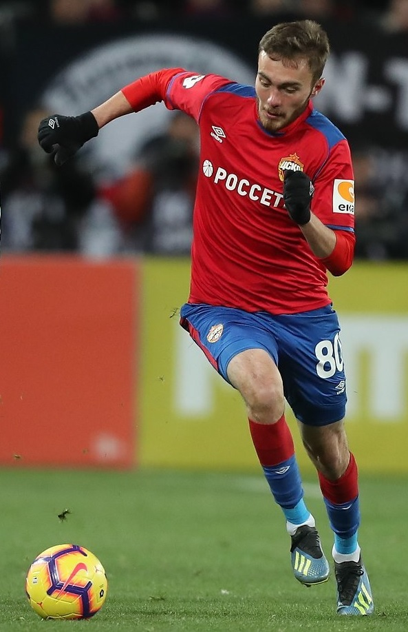 Khetag Khosonov with CSKA Moscow in a game against Zenit St. Petersburg.